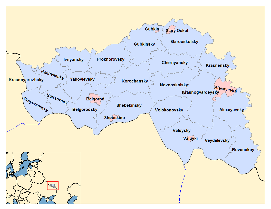 Map of the administrative divisions of Belgorod oblast in Russia. Created by Rarelibra 16:43, 3 April 2007 (UTC) for public domain use, using MapInfo Professional v8.5 and various mapping resources.